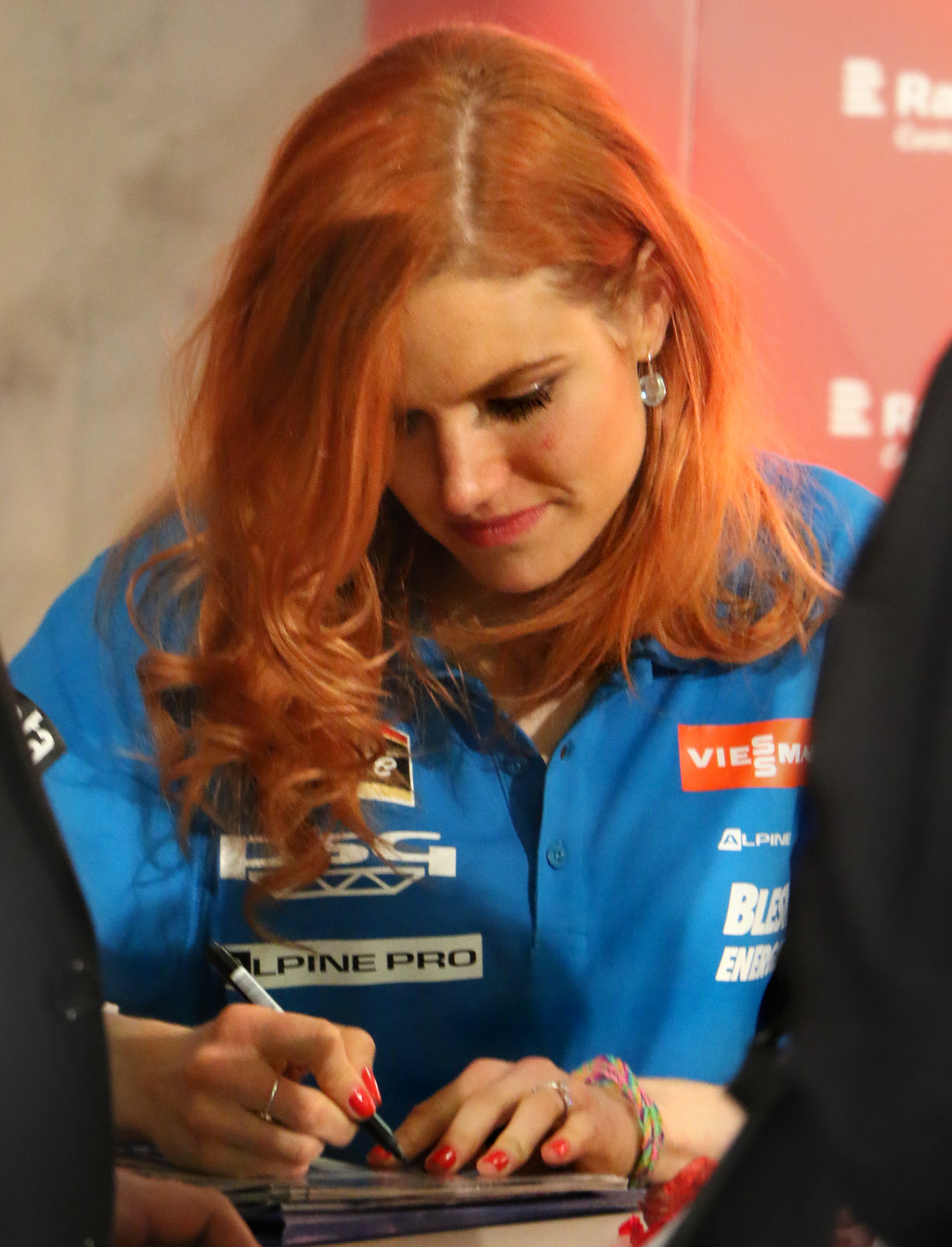 Czech biathlete Gabriela Soukalová, 2016